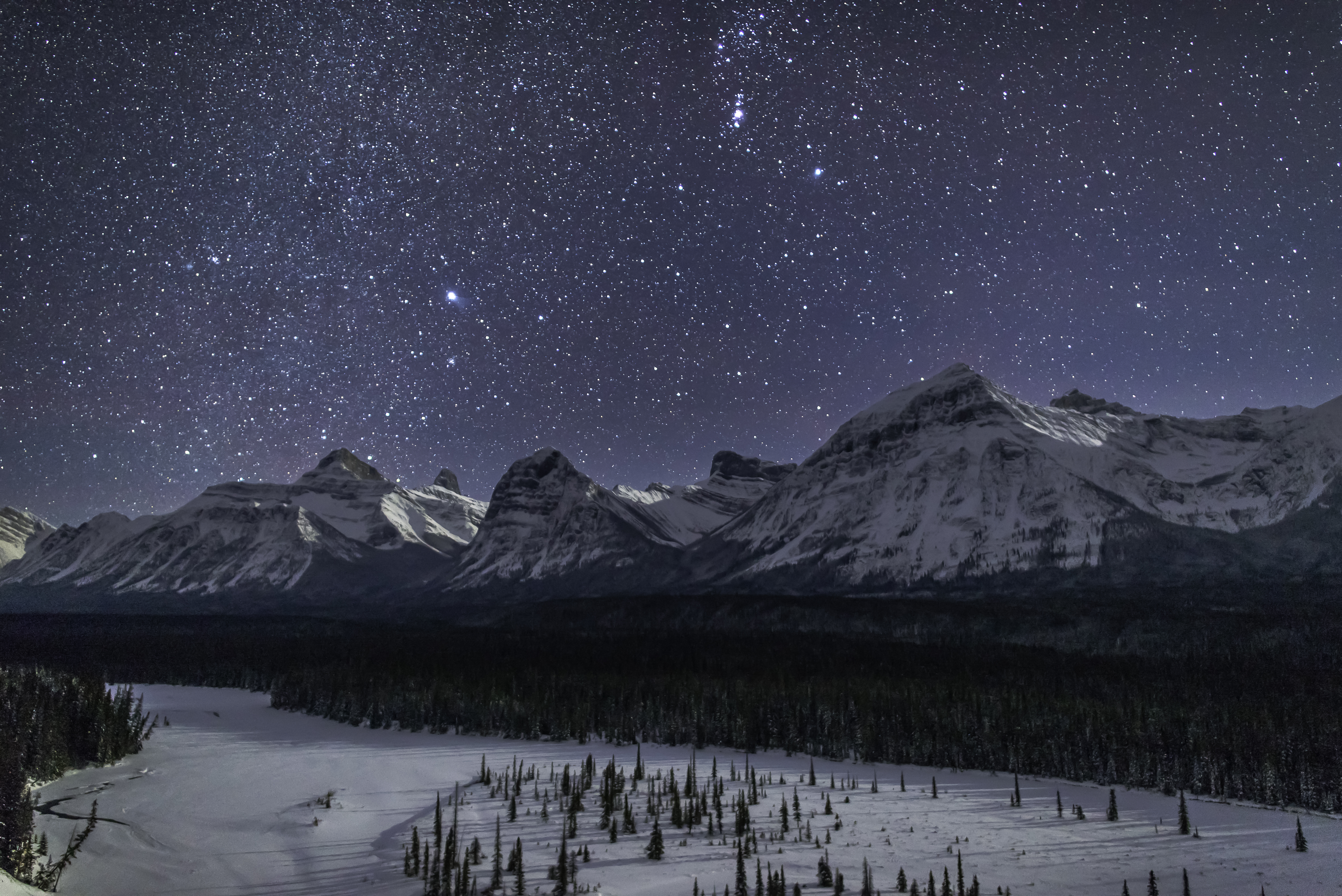 Mt. Fryatt behind the Athabasca River lit by the setting moon beneath stars. Orion's Belt is visible upper center.